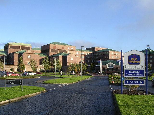 Golden Jubilee Hospital and accompanying Beardmore Hotel, Clydebank, Scotland. In 2002, the HCI Hospital and Hotel were bought from Abu Dhabi Investment Company by the Scottish Executive for £37.5m.